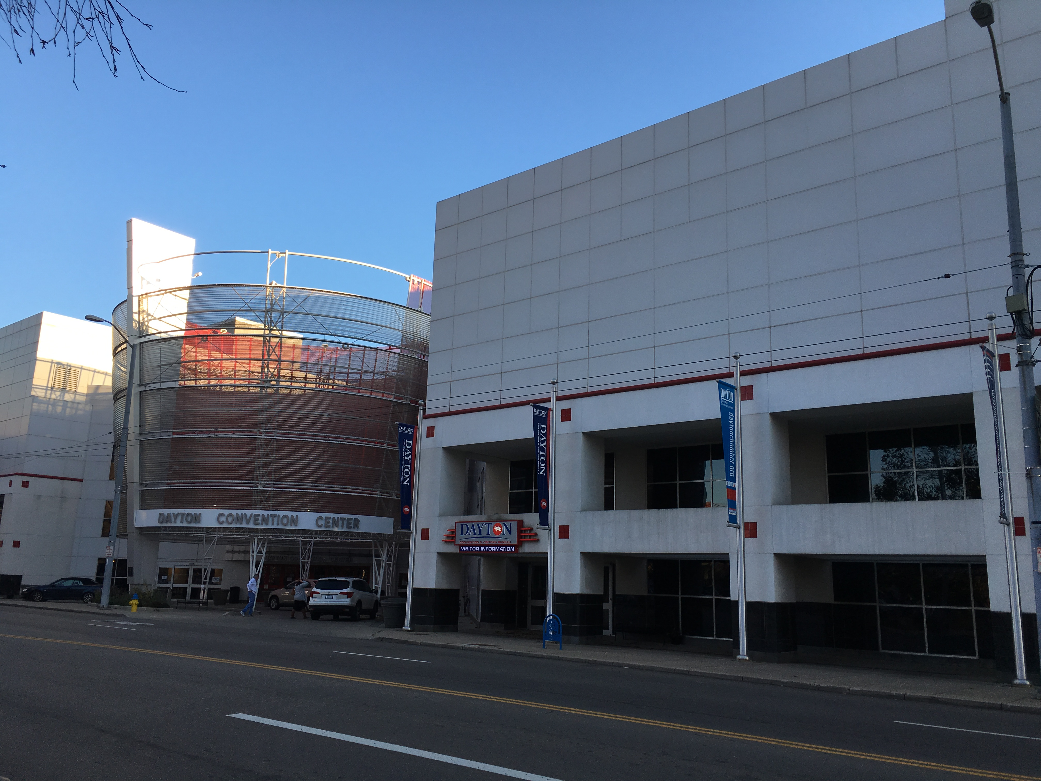 Dayton Convention Center 2015